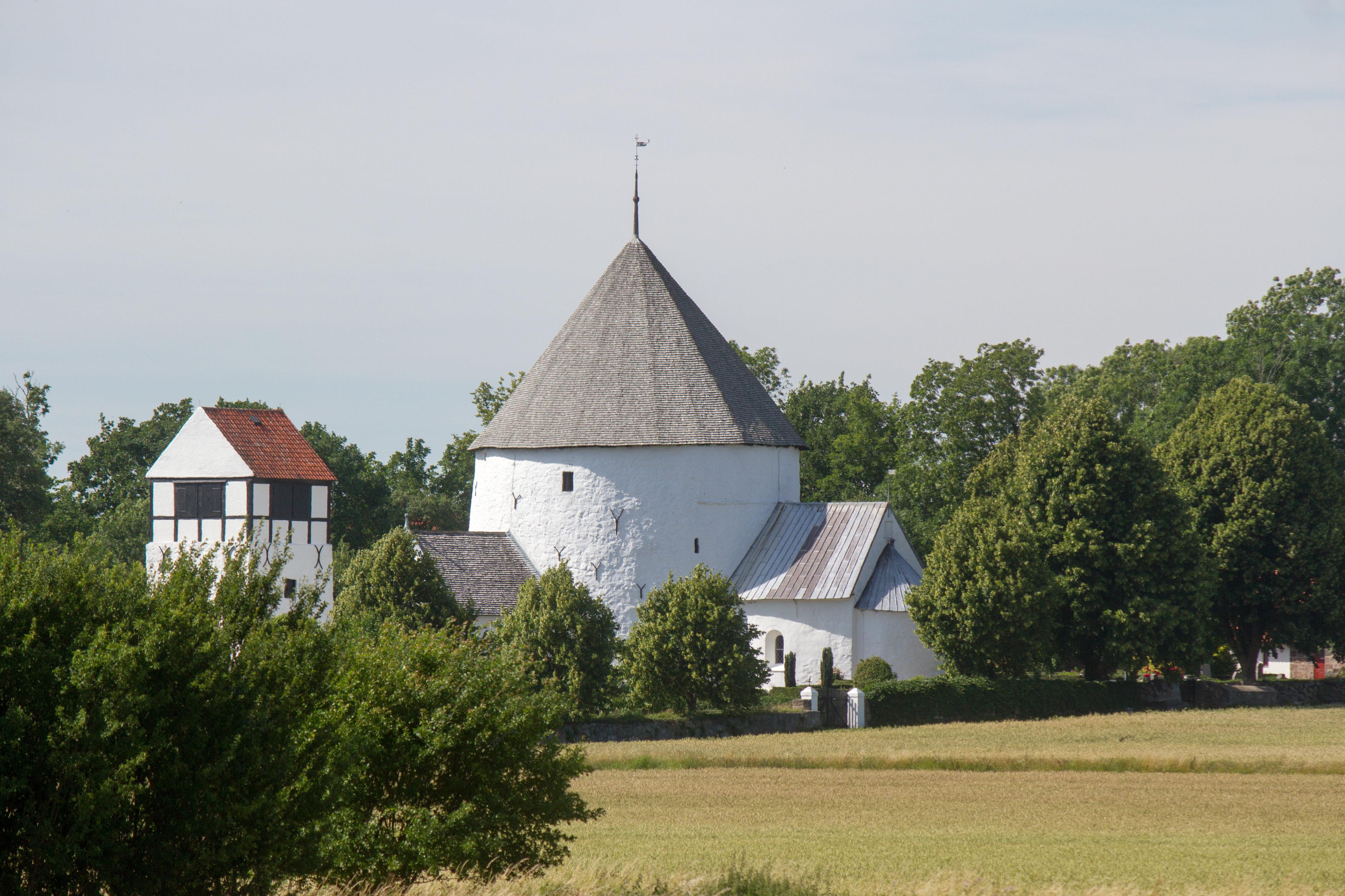 Nylars Church on Bornholm, Denmark